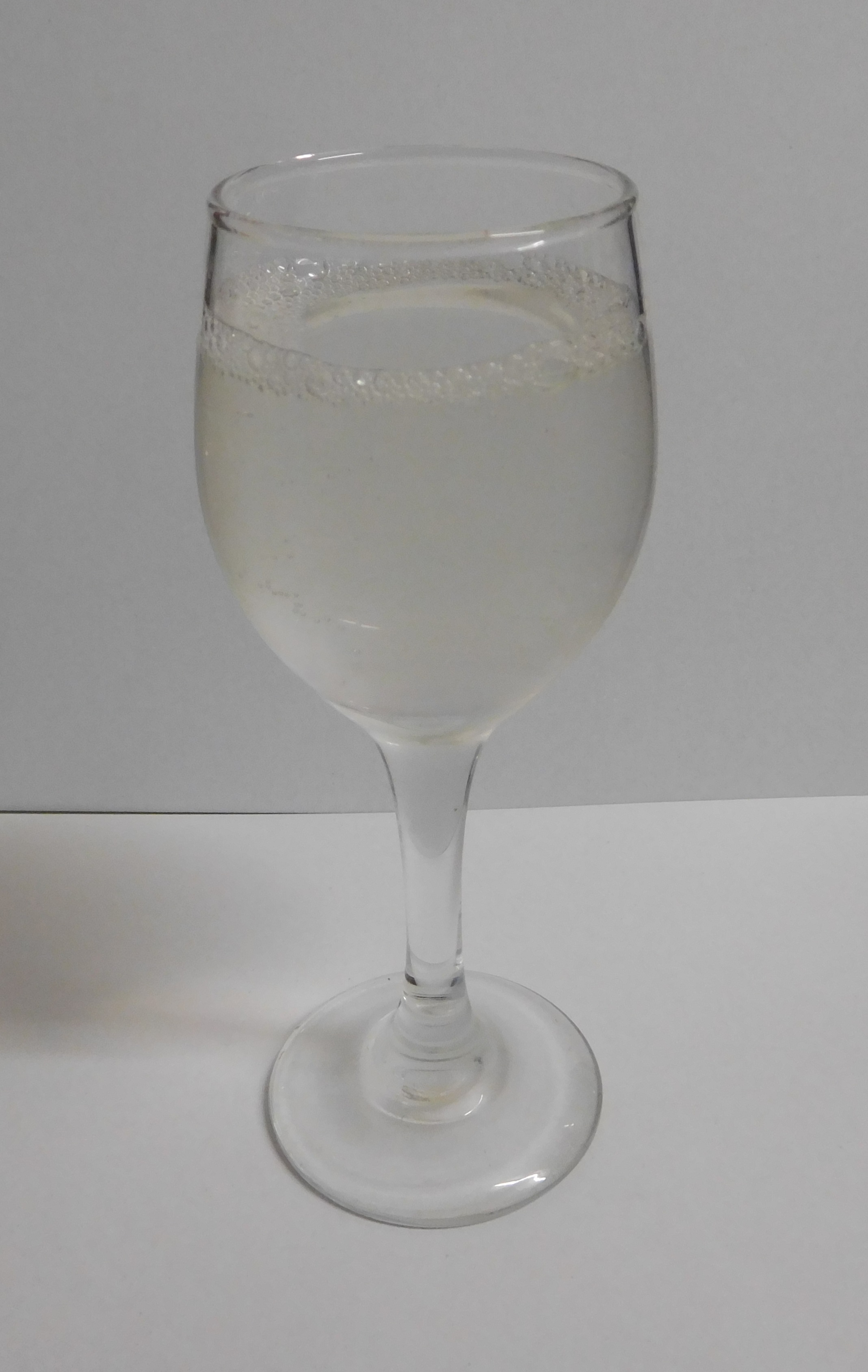 This is a sparkling sake "Iseshima Shuwawa". ISEMAN Co.,Ltd. brewed this sake.